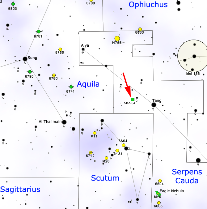 Map of Sh2-64.